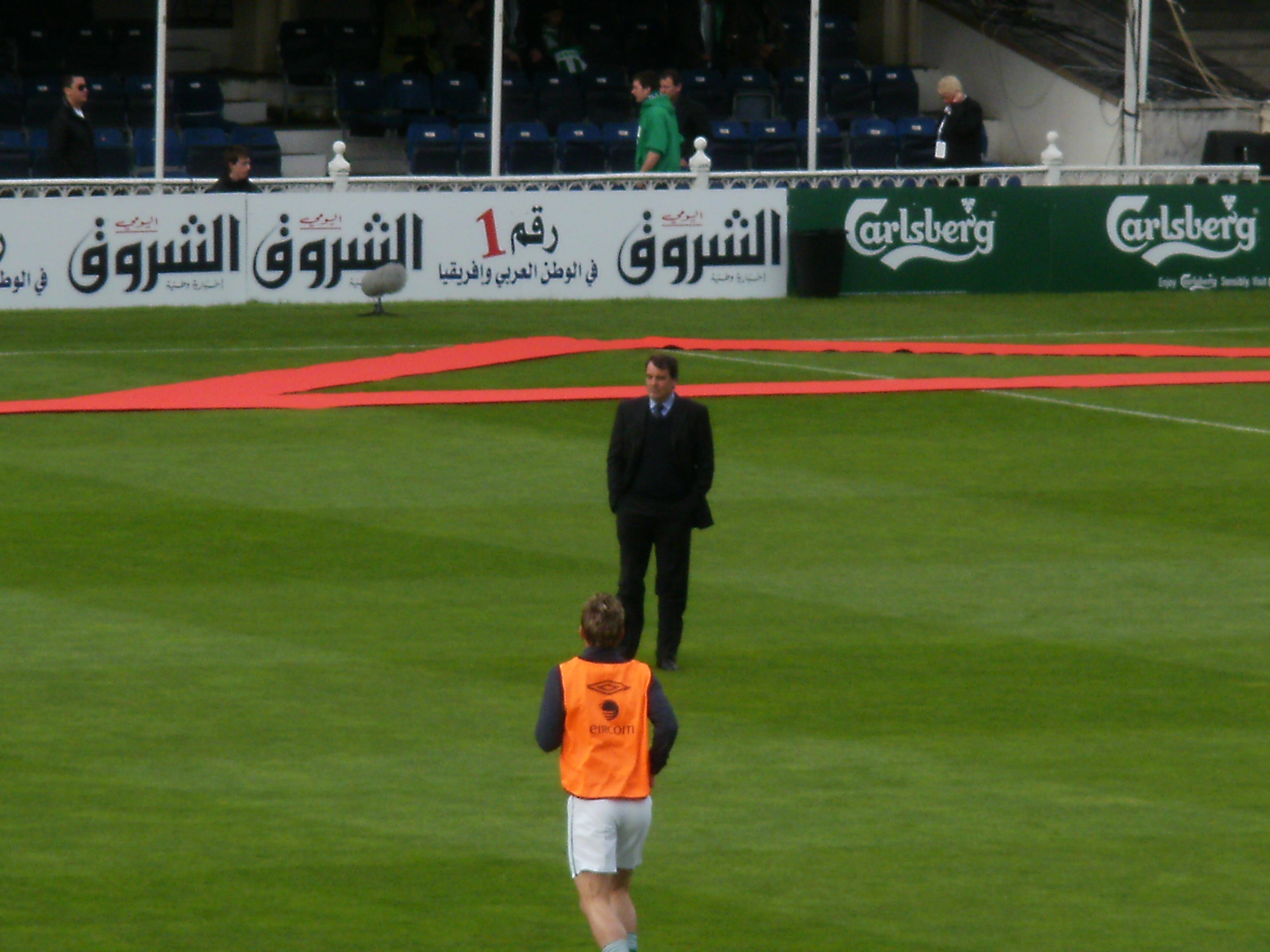 Marco Tardelli - Ireland assistant manager